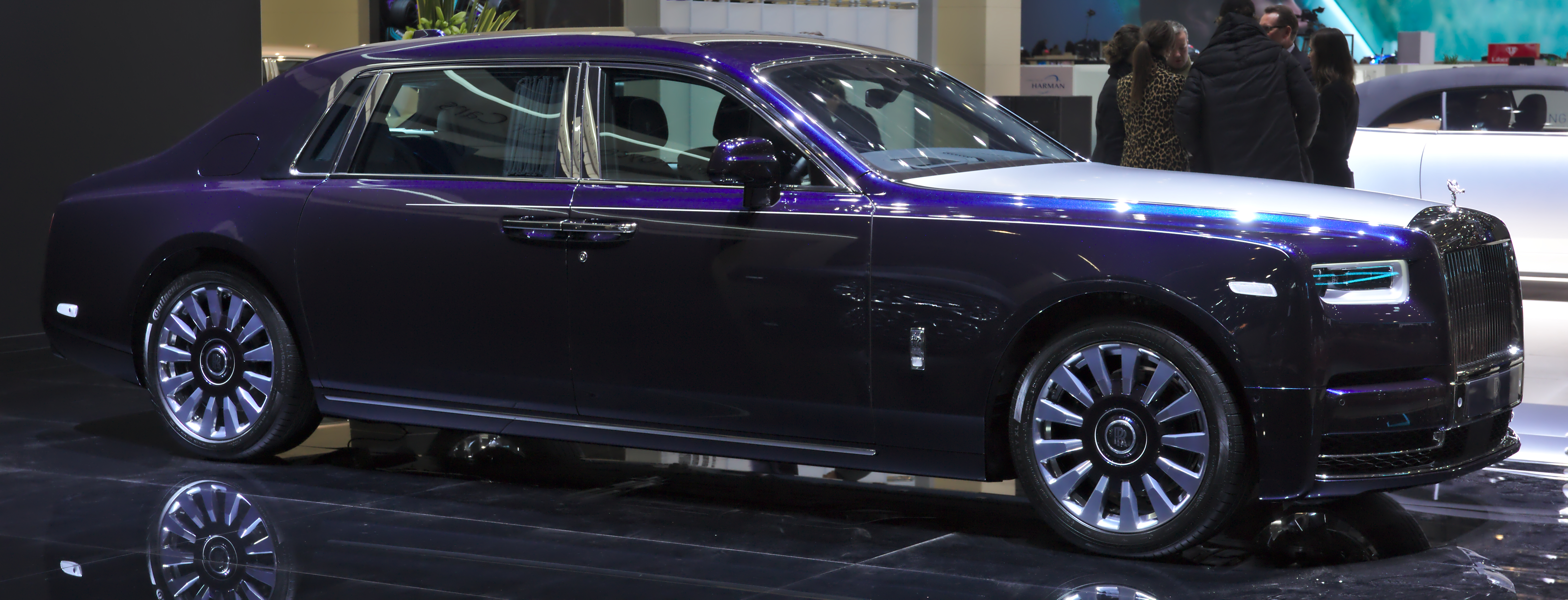 Rolls-Royce Phantom VIII EWB at Geneva Motorshow 2018